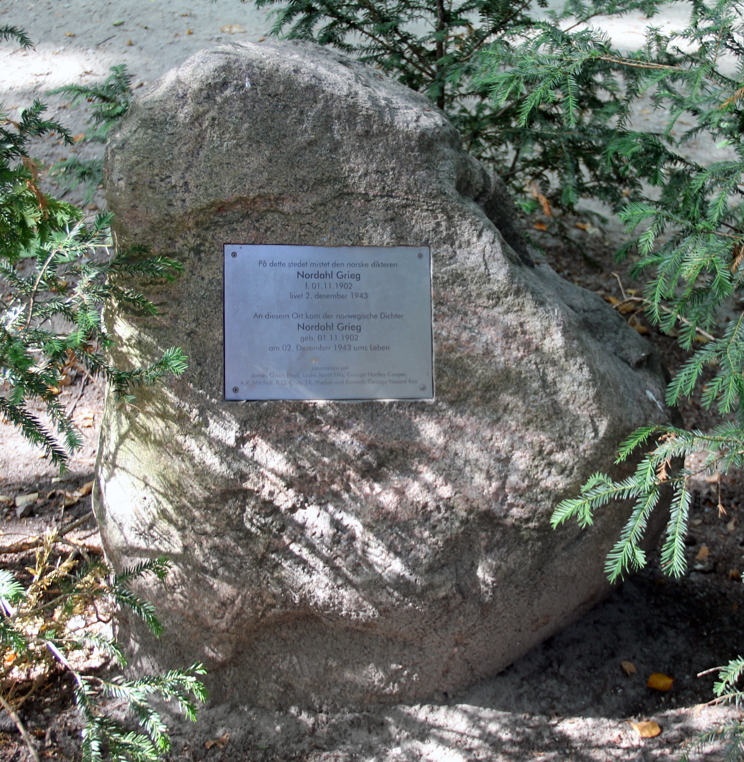 Memorial stone, Nordahl Grieg, Machnower See, Kleinmachnow, Germany